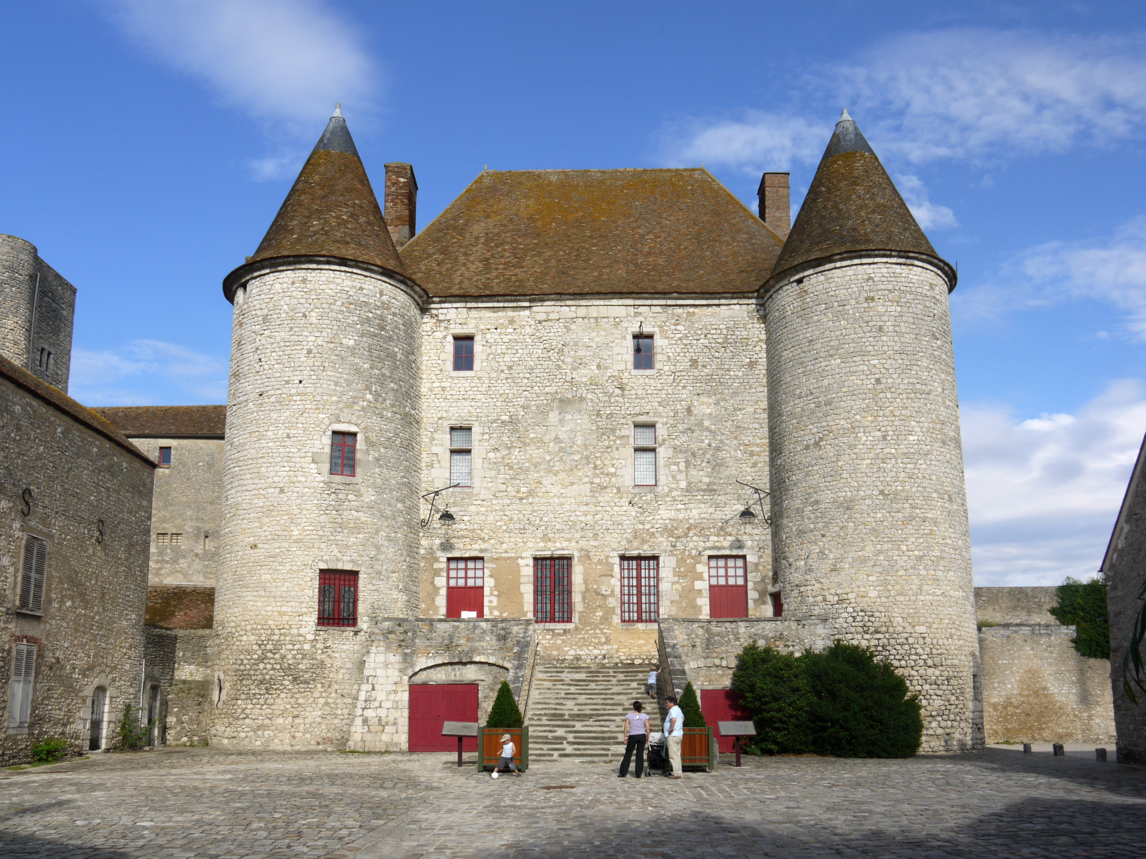 Castle of Nemours, Seine et Marne, France